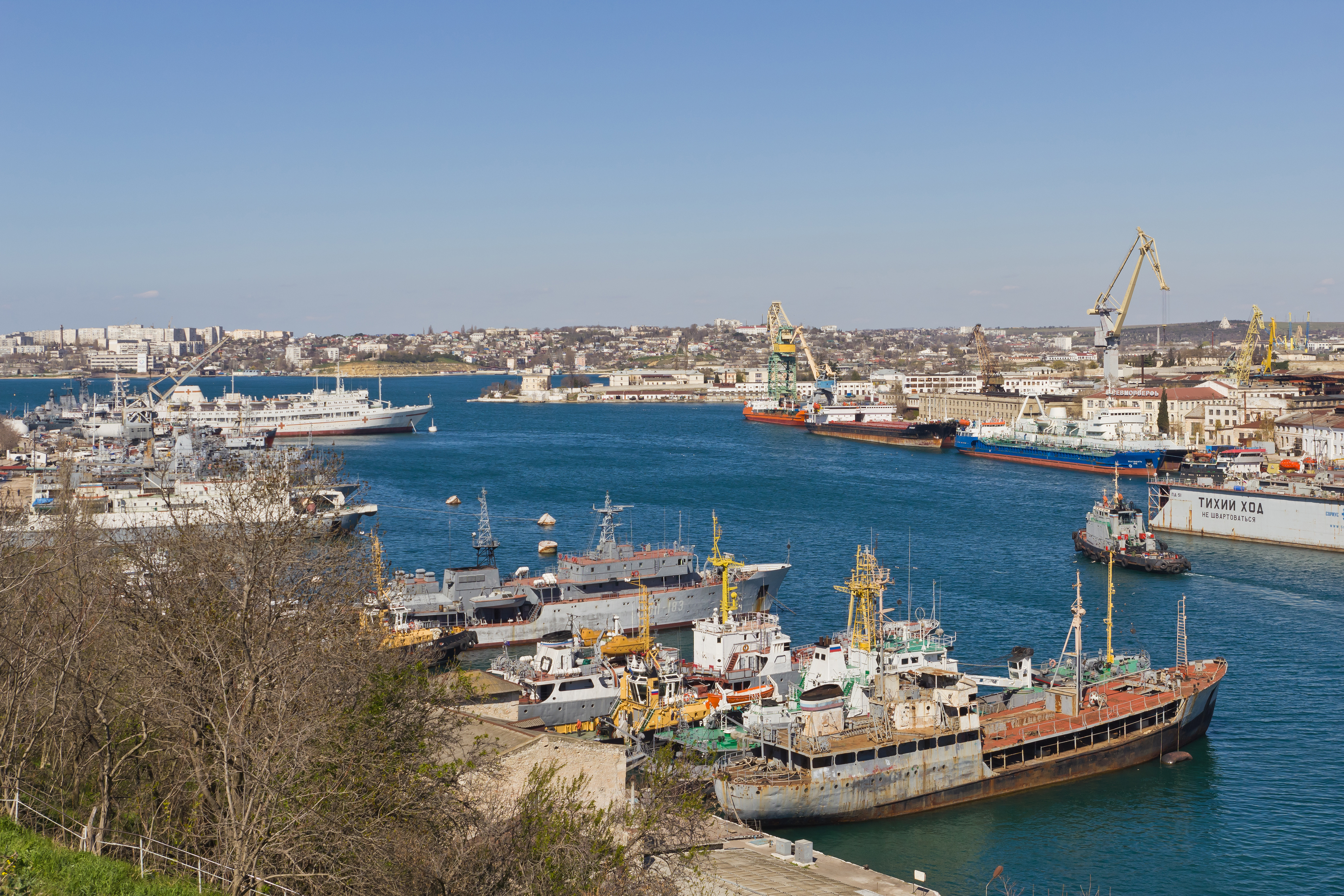 View towards the Southern Bay in the Federal City of Sevastopol. Crimean peninsula.